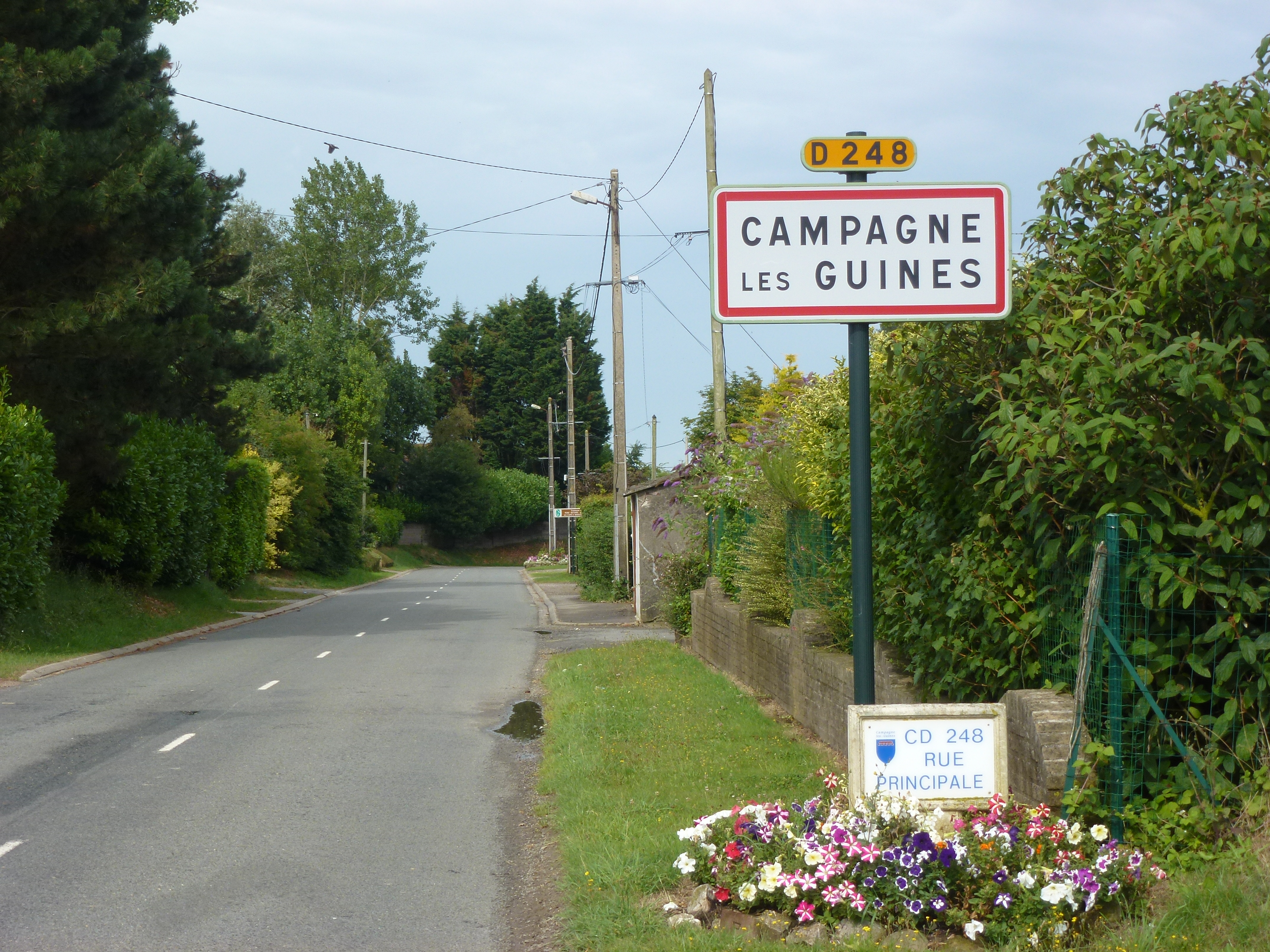 Campagne-lès-Guines (Pas-de-Calais) city limit sign